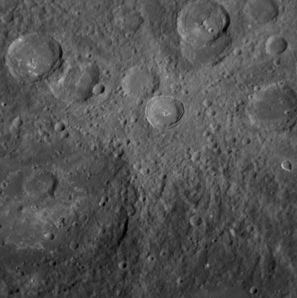 Bek crater on Mercury. MESSENGER Narrow Angle Camera image. This is the first image of Bek by MESSENGER, acquired on its second flyby. Approximate north is at top. Image width at foreground is 230 km. Emission Angle: 28.2 Incidence Angle: 56.6 Latitude: 20.3 Longitude: 309.0 Phase Angle: 45.3